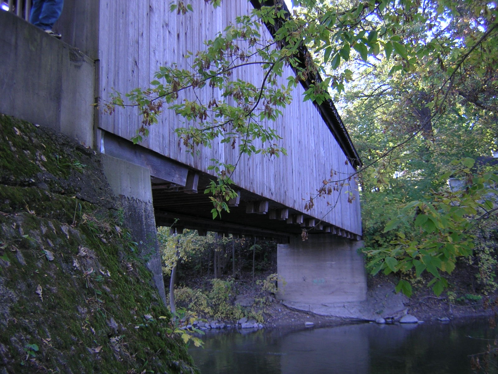 A scene from Ada, Michigan. Ada Township is a civil township of Kent County in the U.S. state of Michigan. As of the 2000 census, the township population was 9,882. The unincorporated community of Ada is located within the township on M-21 twelve miles east of Grand Rapids. Ada is the corporate home of Alticor and its subsidiary companies Quixtar and Amway. This image is of the Ada Covered Bridge across the Thornapple River just S of where it enters the Grand River just S of M-21. The bridge is on the List of Registered Historic Places in Kent County. Specifically, this image is of the bridge underside, from the downstream side. The truss members can be seen protruding below the sheathing.